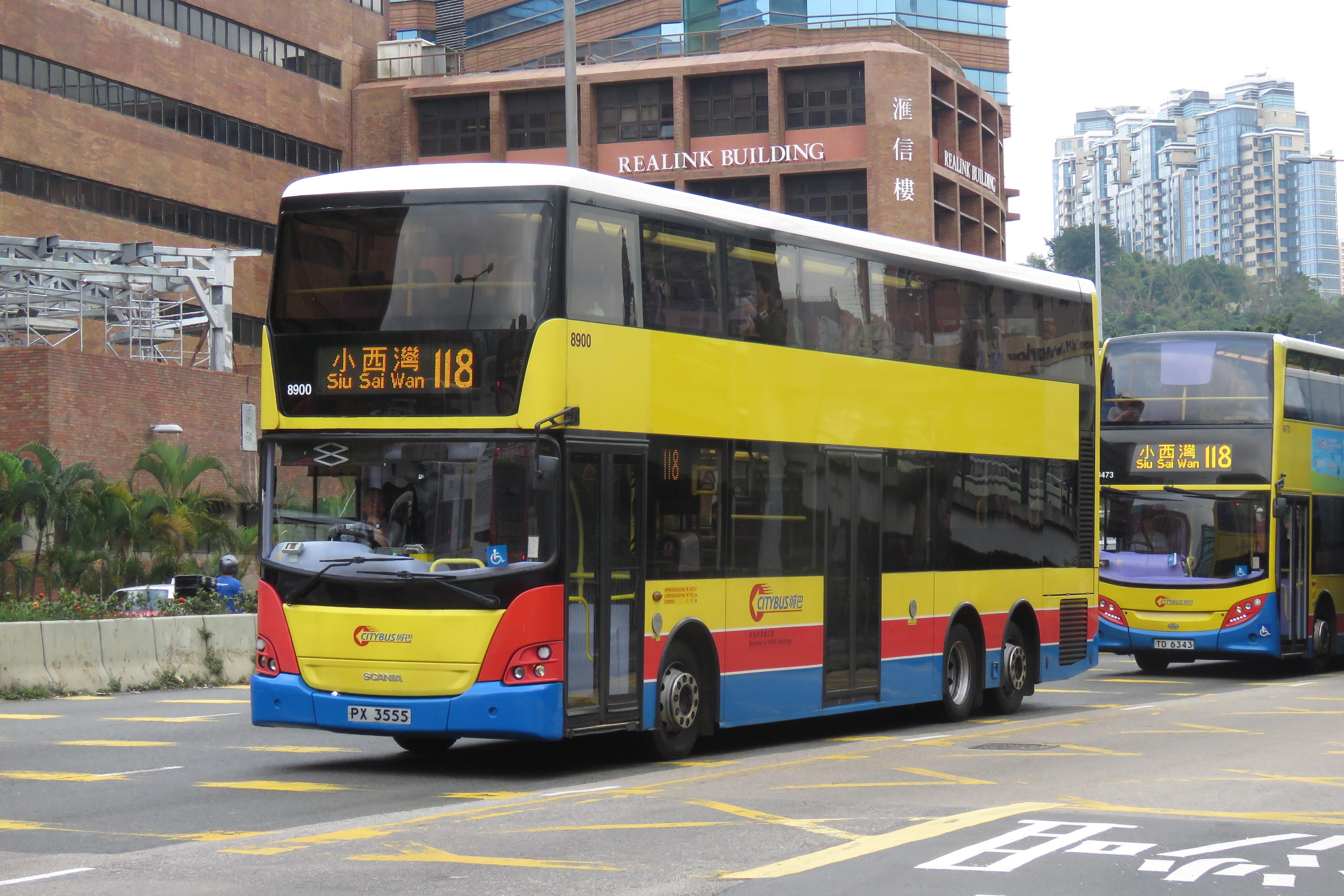 No enough light...